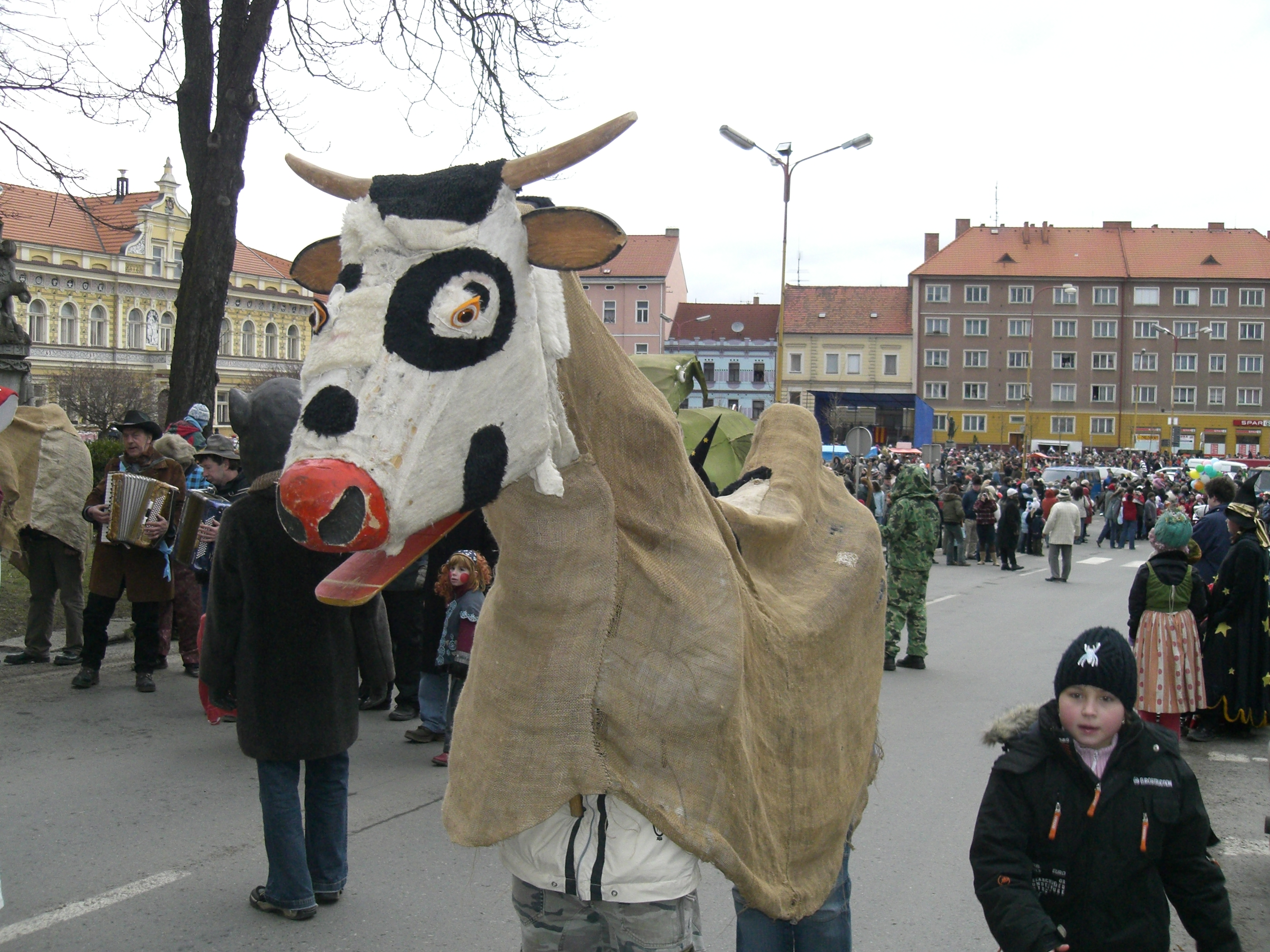 Masopust in Milevsko, Czech Republic 49°27′4.556″N 14°21′36.954″E / 49.45126556°N 14.360265°E